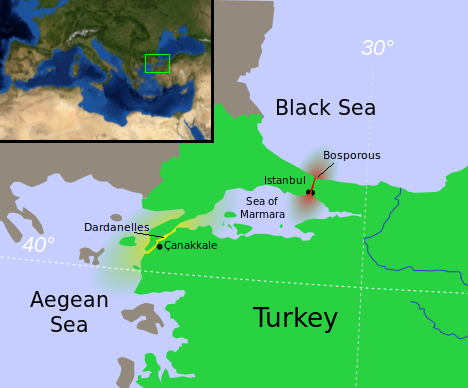 Russian empire sea access WWI featuring the Dardanelles and the Bosporous. Derivative Work of 1. File:Mediterranian Sea 16.61811E 38.99124N.jpg by Eric Gaba (User:Sting) which is based off of a screenshot from NASA World Wind, . This portion of the image (the upper left inset) is in the Public Domain. 2. File:Turkish Strait disambig.svg by User:Interiot, which in turn was a version of Image:Vertrag sevres otoman.svg, created by Thomas Steiner, which were under a Creative Commons 2.5 license. This portion of the image, the 'blown up' version, is under the CC license as well.